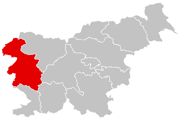 Map representing the Goriška statistical region of Slovenia. modified file File:Slovenian-regions-obalnokraska.png